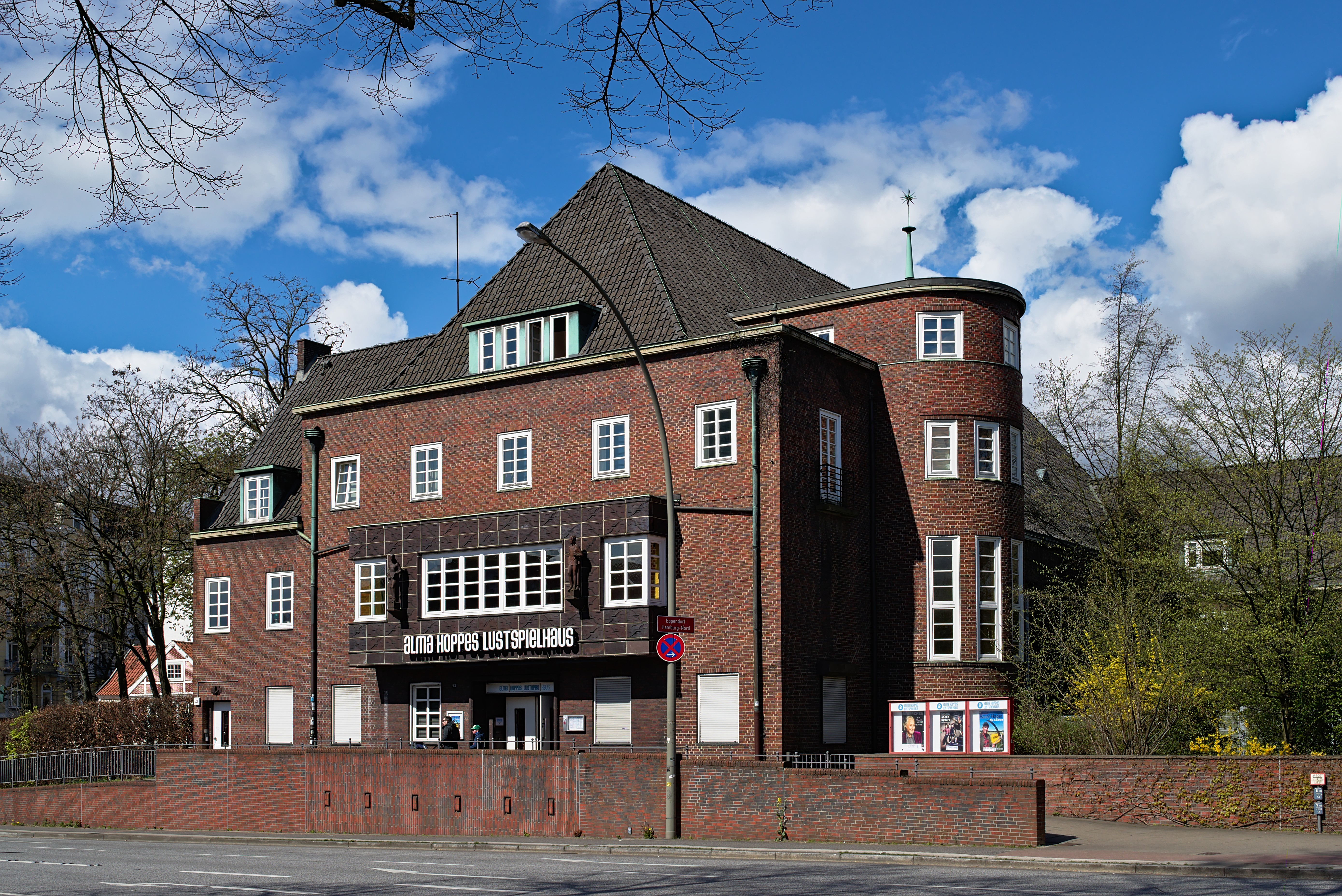 Former congregation hall of St. Johannis church on Ludolfstraße 53 in Hamburg-Eppendorf, completed in 1928. It now houses a cabaret theatre called “Alma Hoppes Lustspielhaus.”